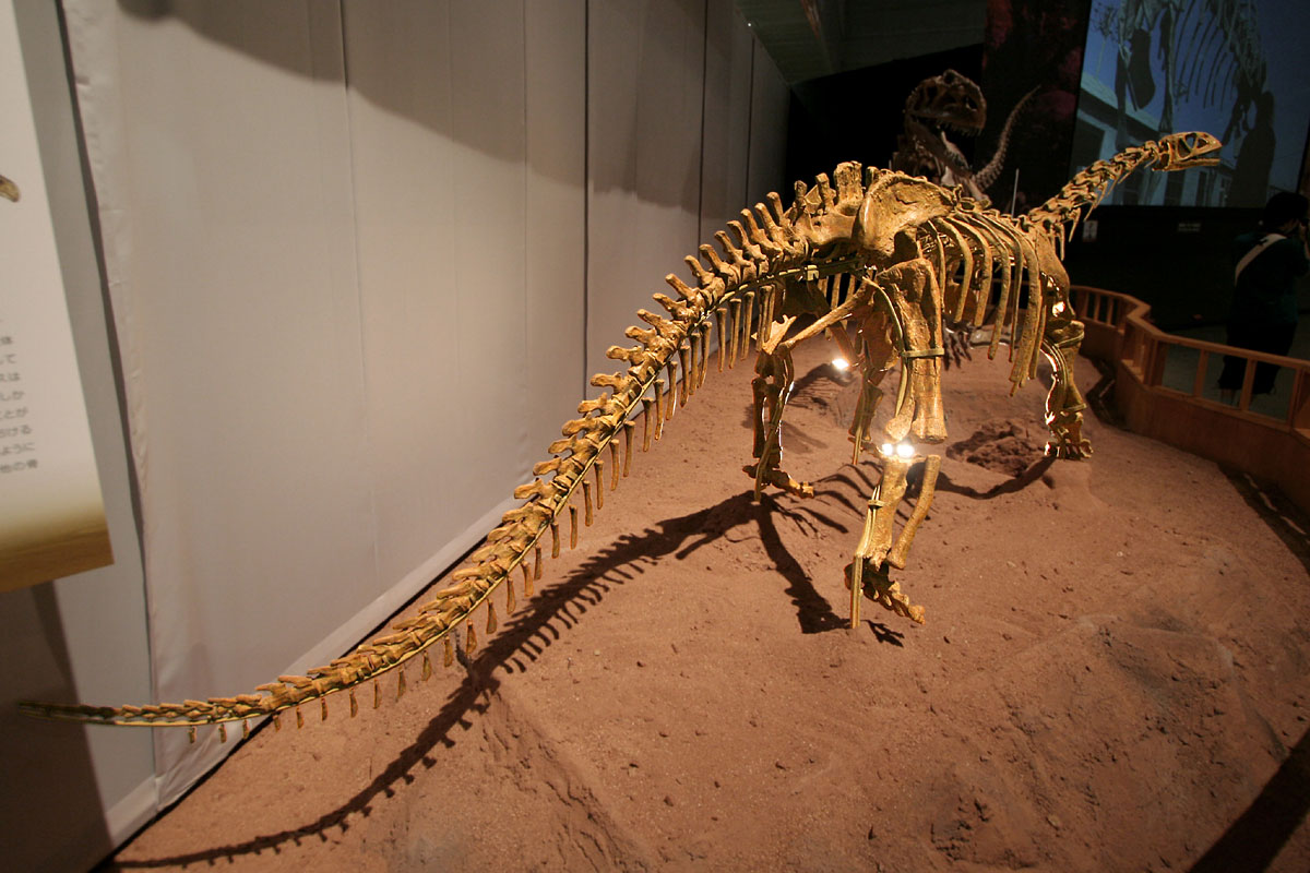 Bellusaurus - 02 Skeleton of Bellusaurus sui Chao, 1987, from the Middle Jurassic of China. Bellusaurus is a eusauropod, possibly a camarasaurid, that is potentially a juvenile of Klamelisaurus gobiensis Zhao, 1993.